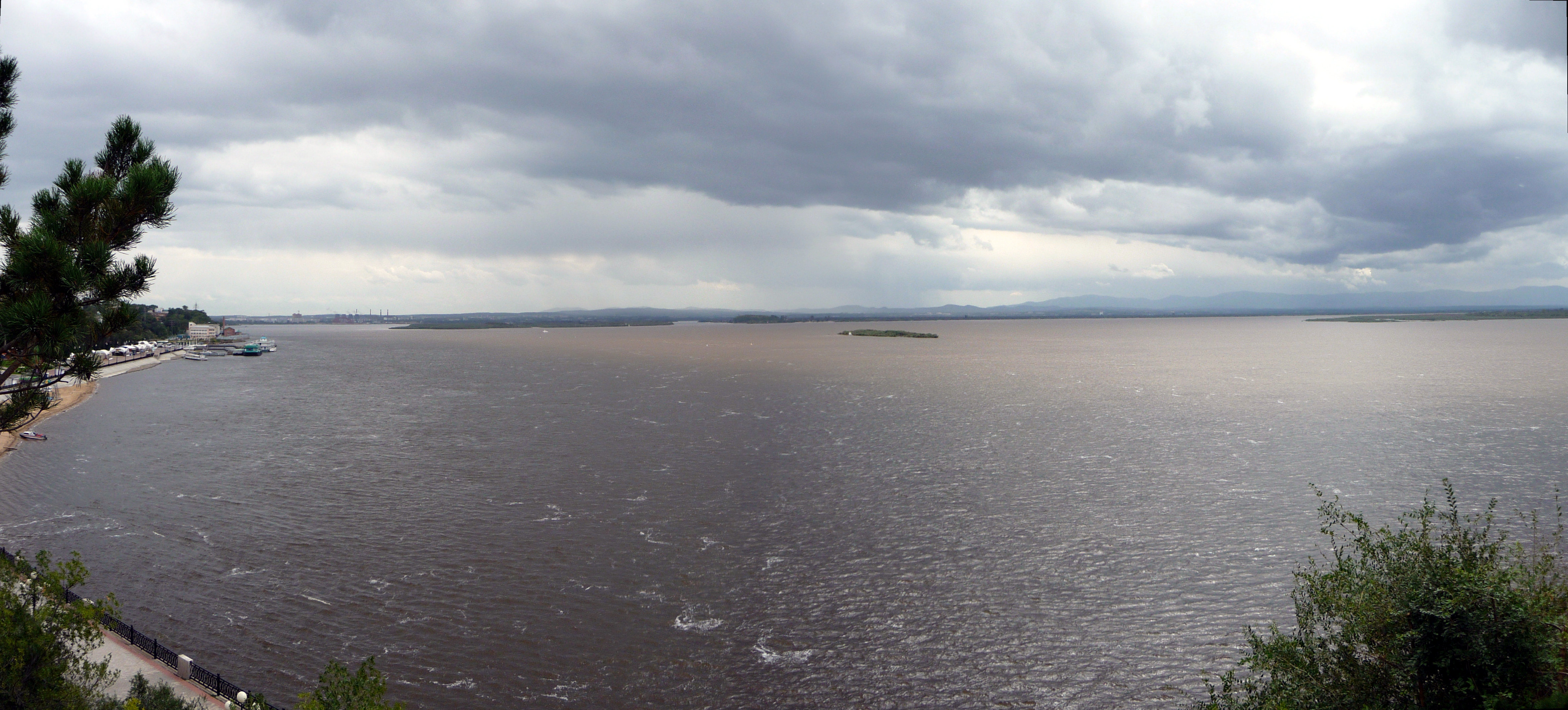 Confluence of the Amur River (on the right) and the Ussuri River (on the left), in the center there is a part of the Bolshoy Ussuriysky Island (Khabarovsk Krai, Russia).